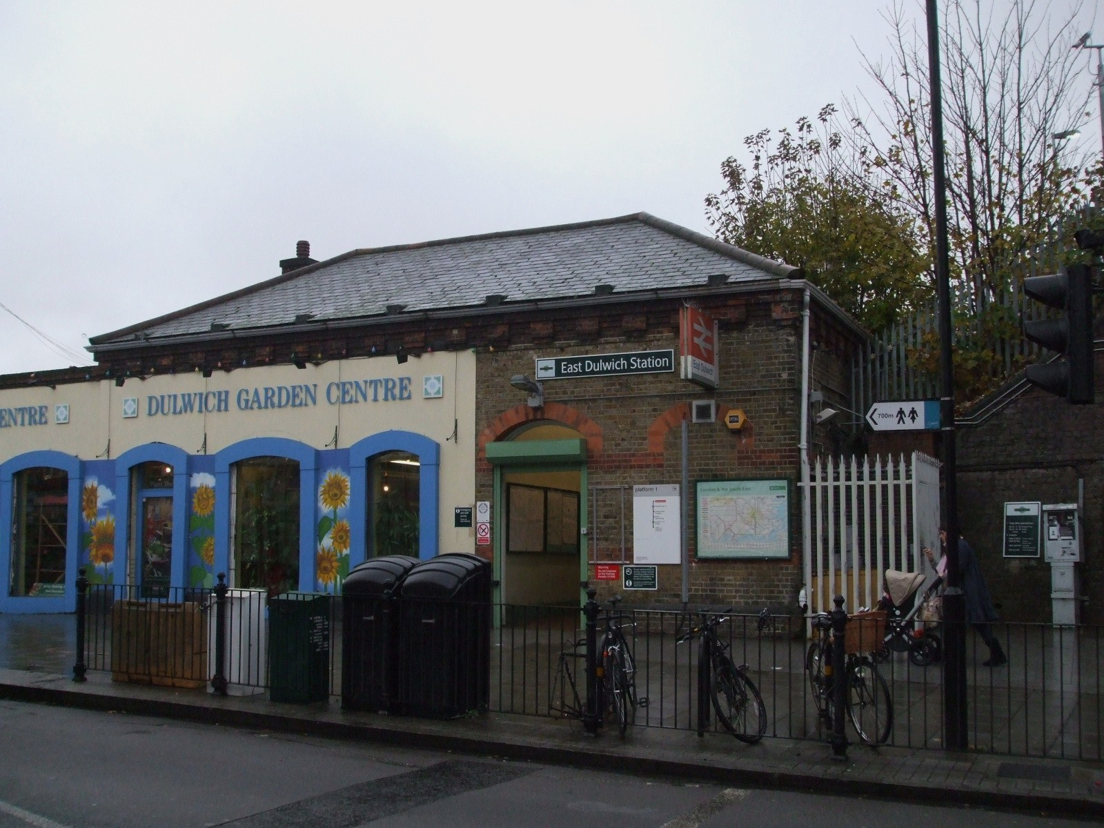 East Dulwich station main entrance, on the southbound side